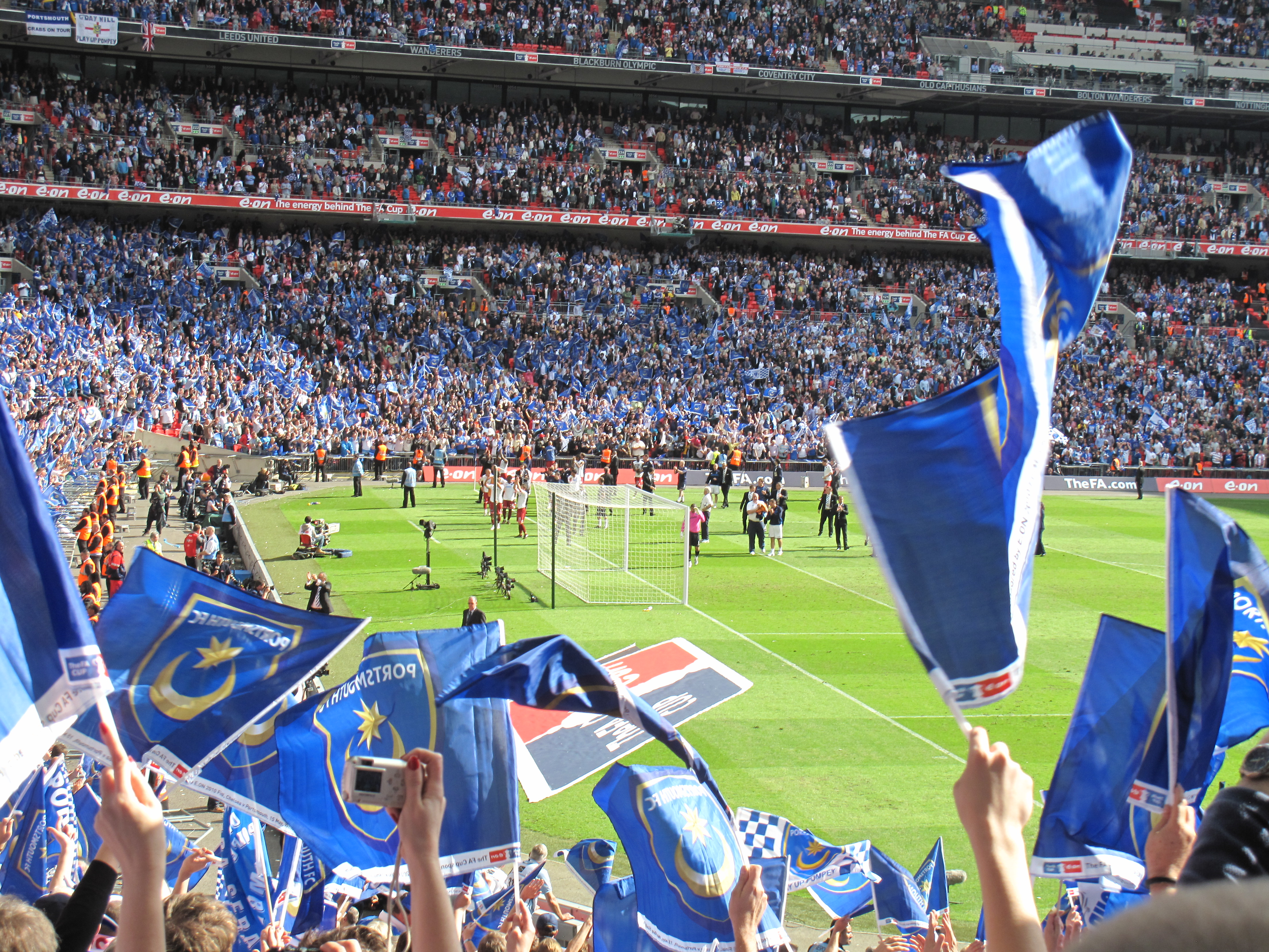 Supporters of Portsmouth F.C.